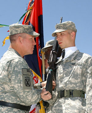 Maj. Gen. Benjamin Freakley, Combined Joint Task Force-76 commander, attaches a 10th Mountain Division combat patch onto the uniform of Pfc. Zachary Fitzsimmons, B Company, Special Troops Battalion June 14. Photo by Staff Sgt. Robert Ramon